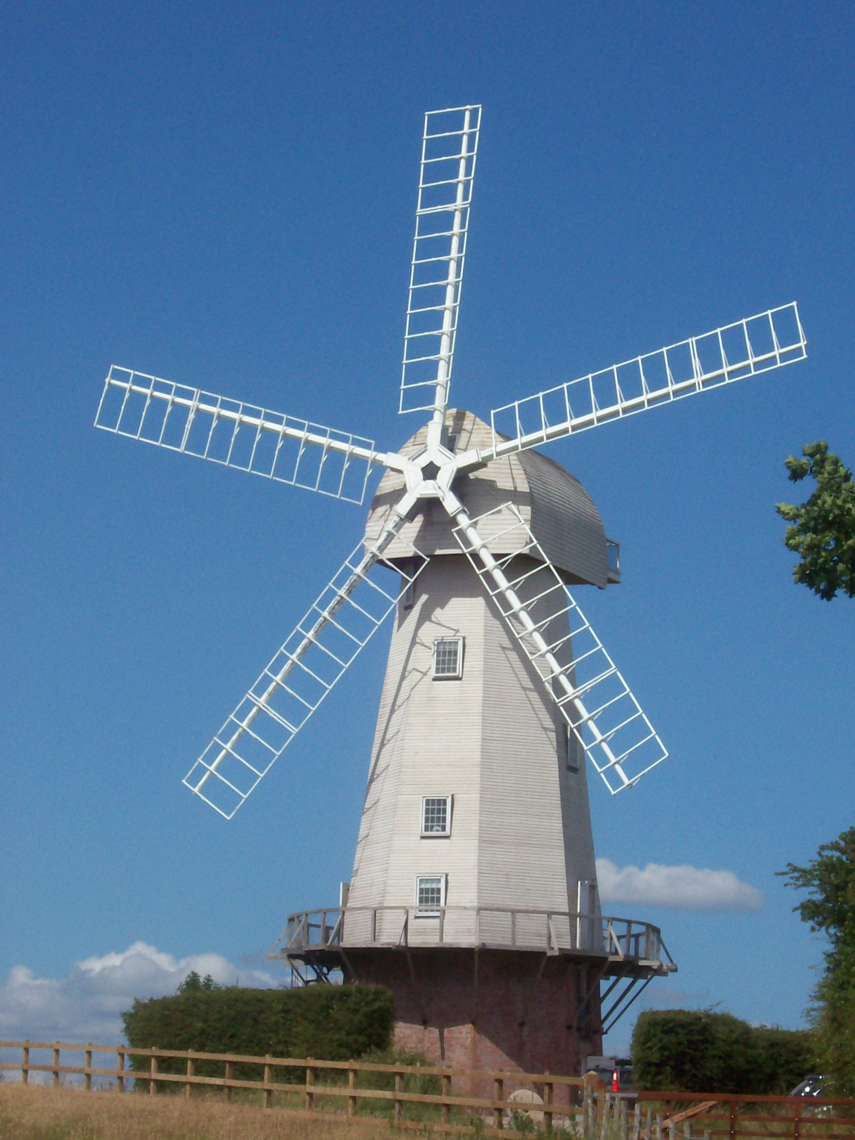 The replica windmill at Sandhurst, Kent. Built on the surviving brick base of the original mill.